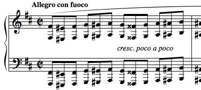 Excerpt from Chopin's Etude Op.25 No.10